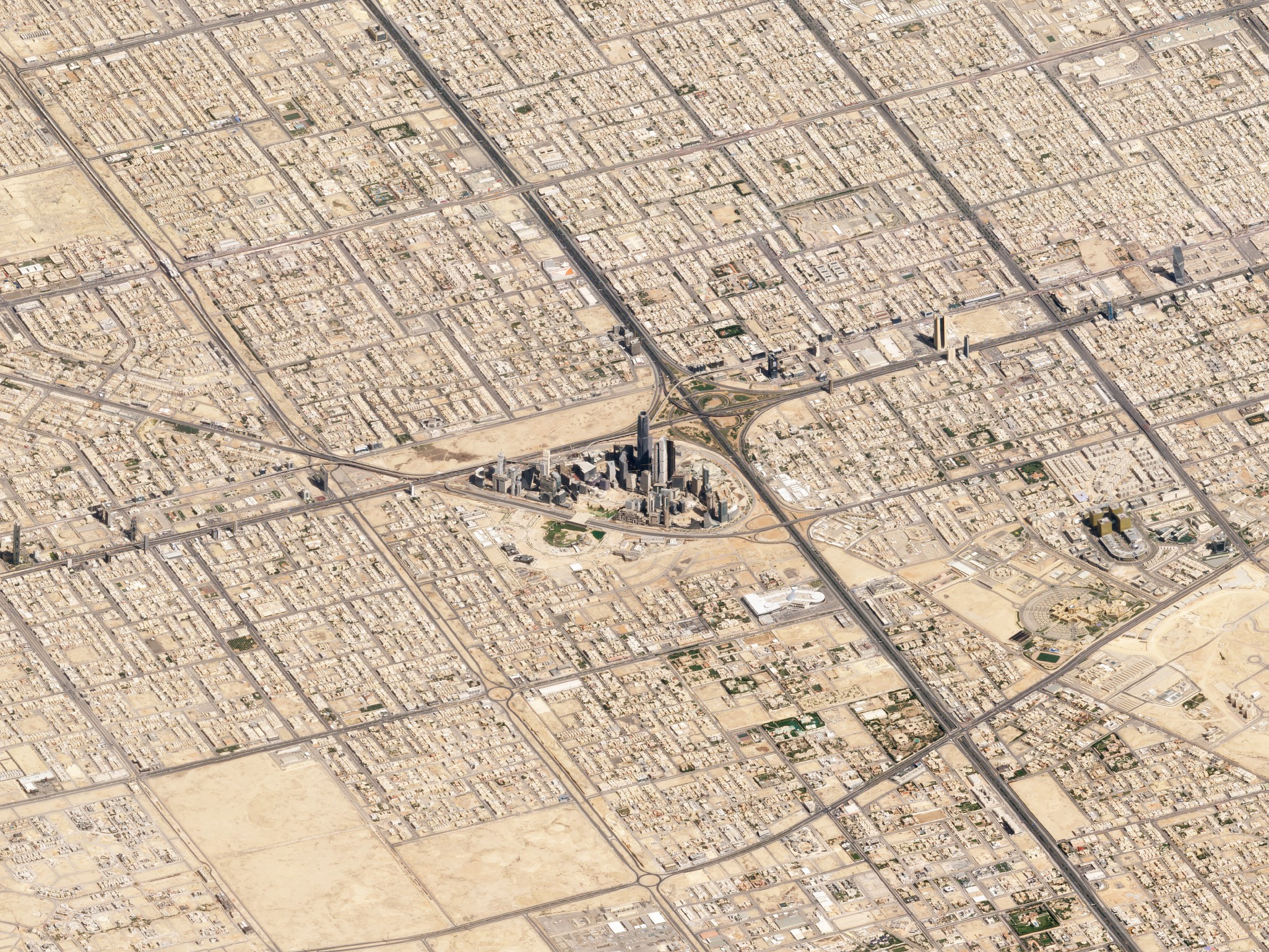 SkySat satellite image of Riyadh, Saudi Arabia